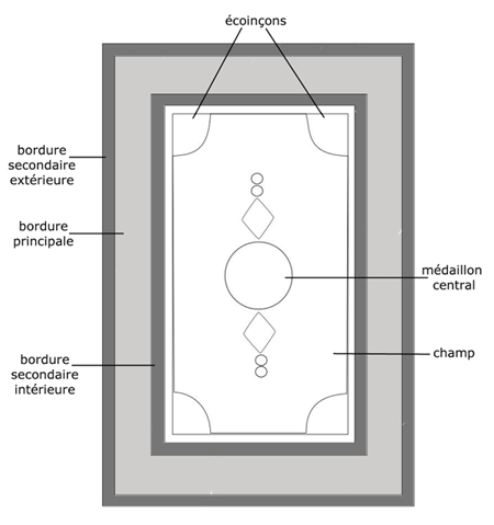 Rug composition scheme